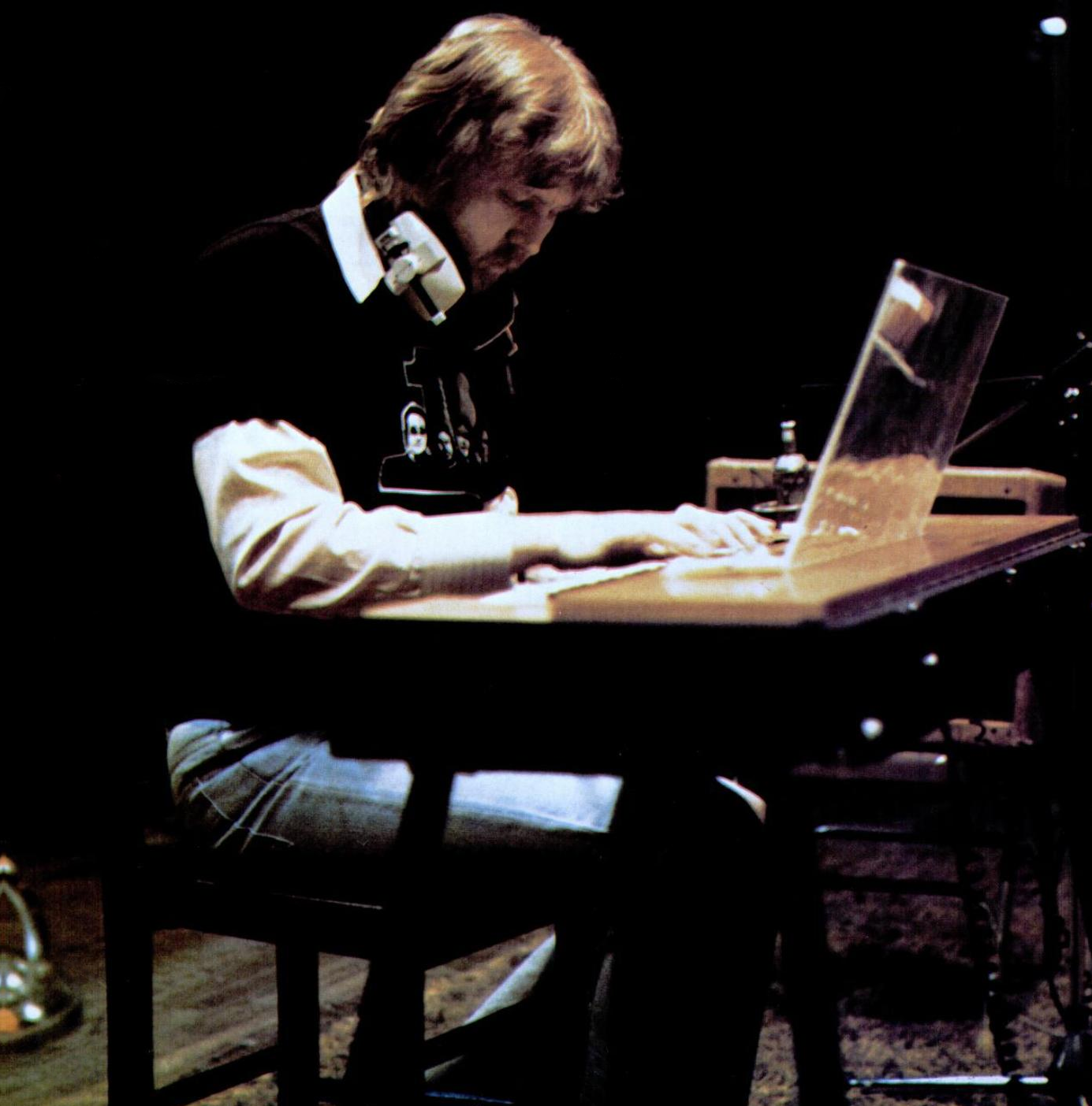 Trade ad for Harry Nilsson's single "Many Rivers To Cross". To better adapt it to his respective Wikipedia article, the ad was cropped and cleaned in a graphics editing program. The original can be viewed at the source below.